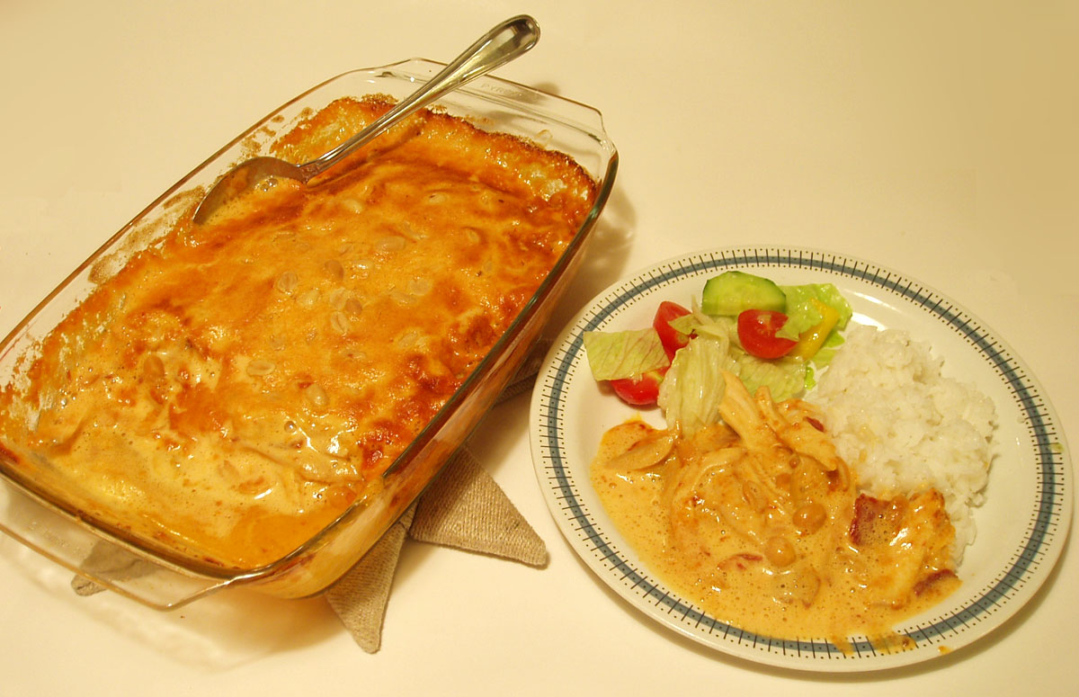 Food flying jacob ready